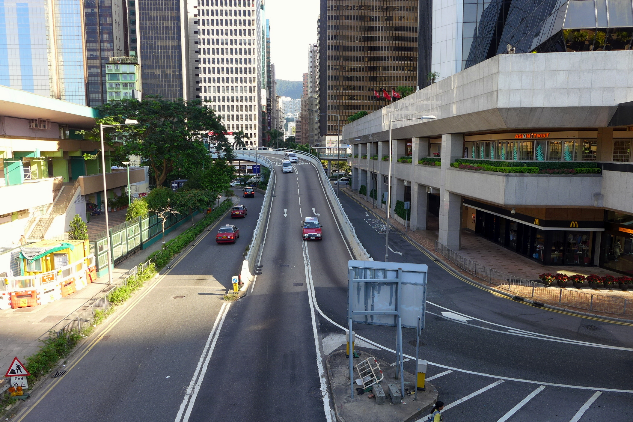 Tonnochy Road Near SHK Centre